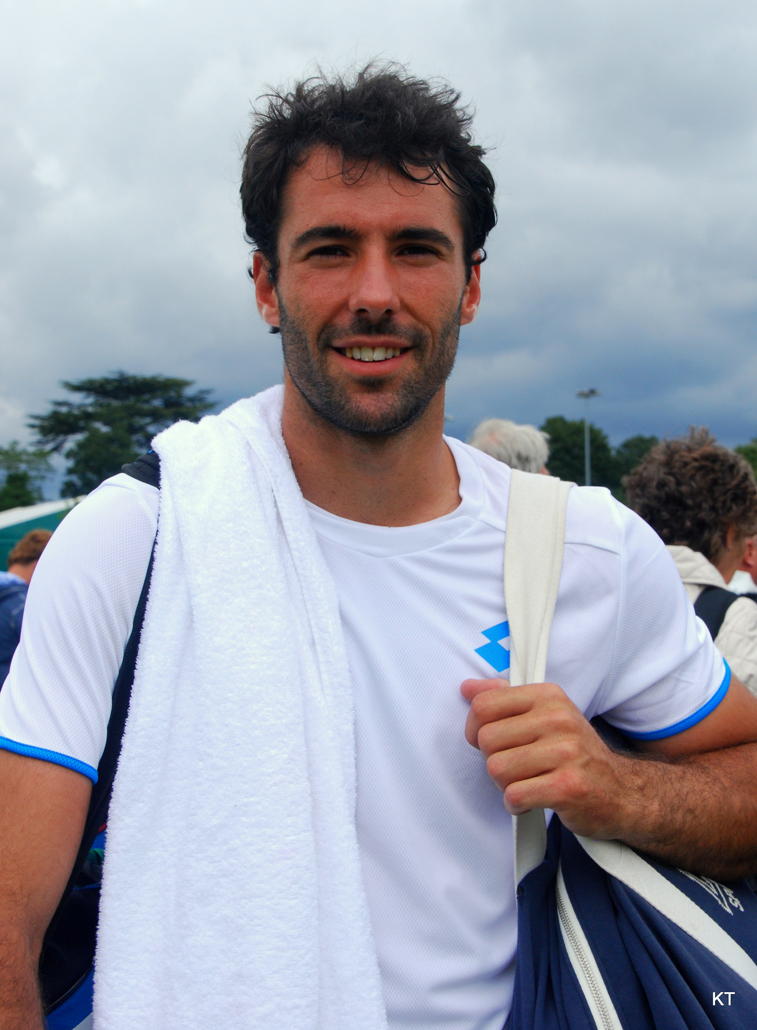 Day 1 of Wimbledon qualifying 2014.